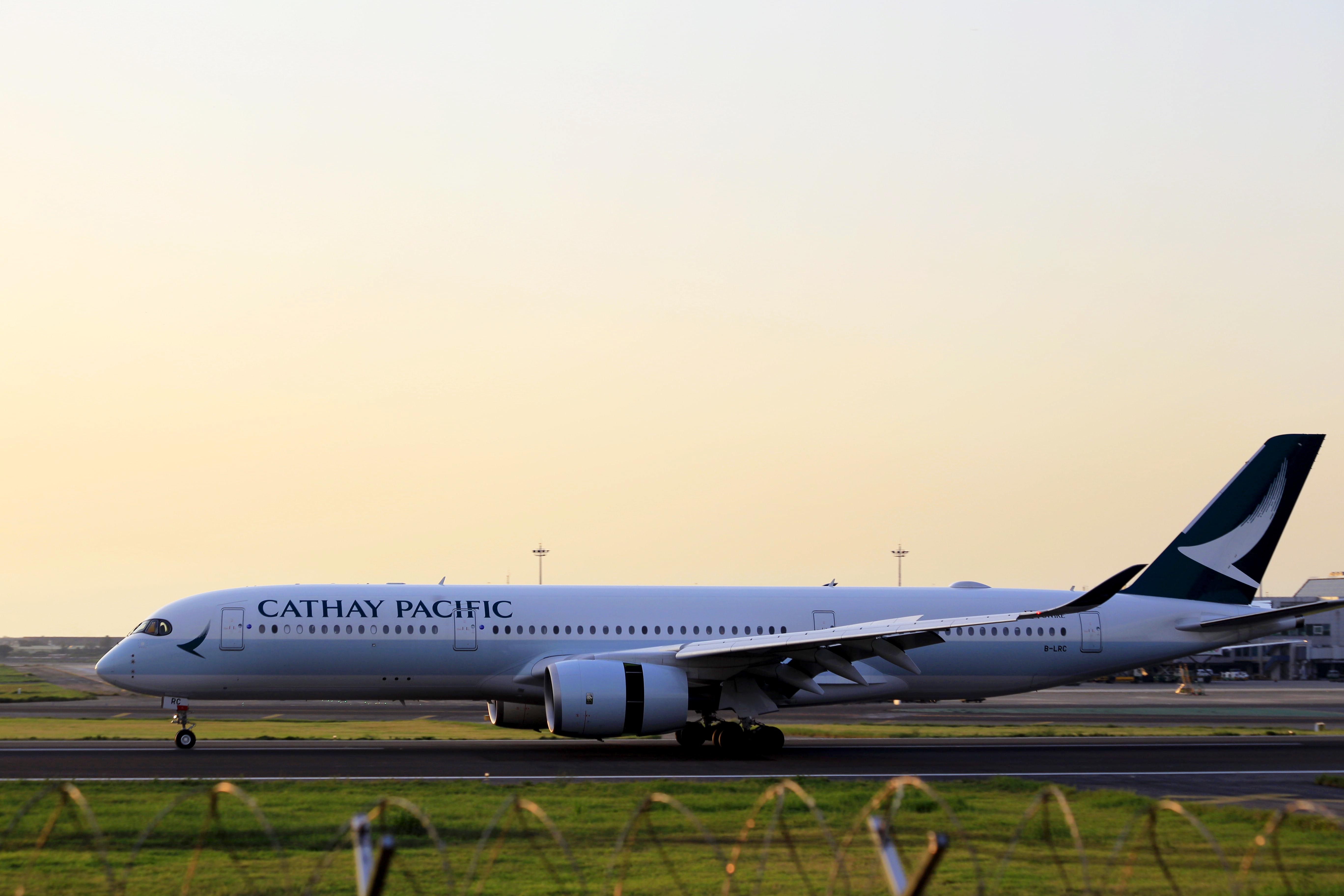 Cathay Pacific Airbus A350-941